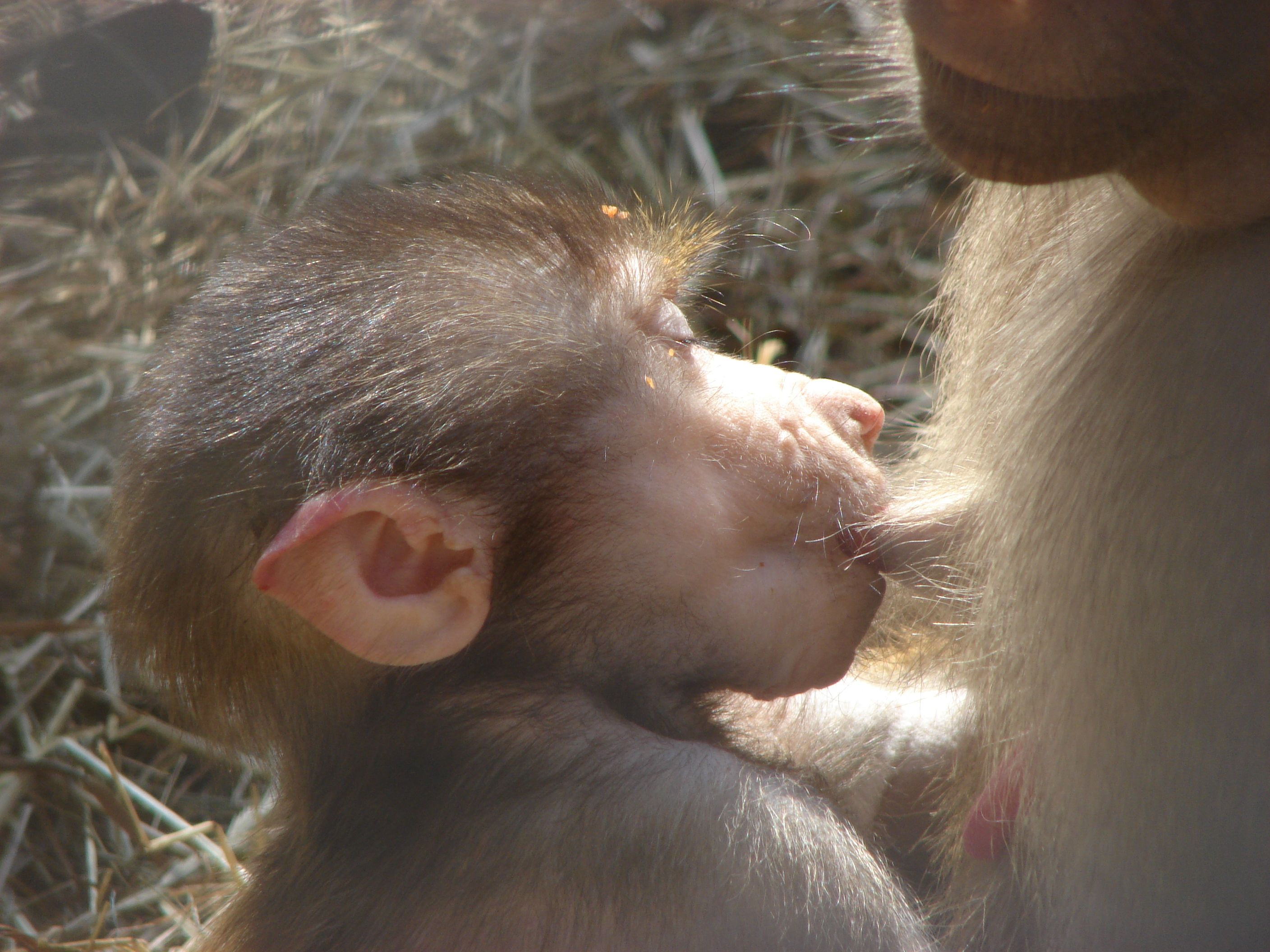 Young Hamadryas Baboon sucks on mothers breast, in the zoo of Stadt Haag, Austria.